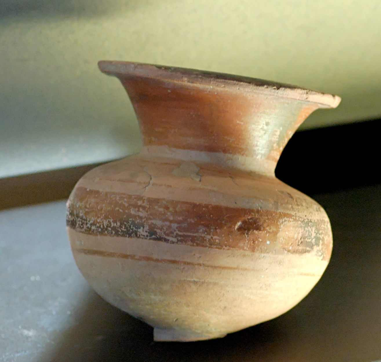 Lydion, 6th century BC. Found in tomb J24 in the necropolis of Elaeus, in Thracian Chersonese.